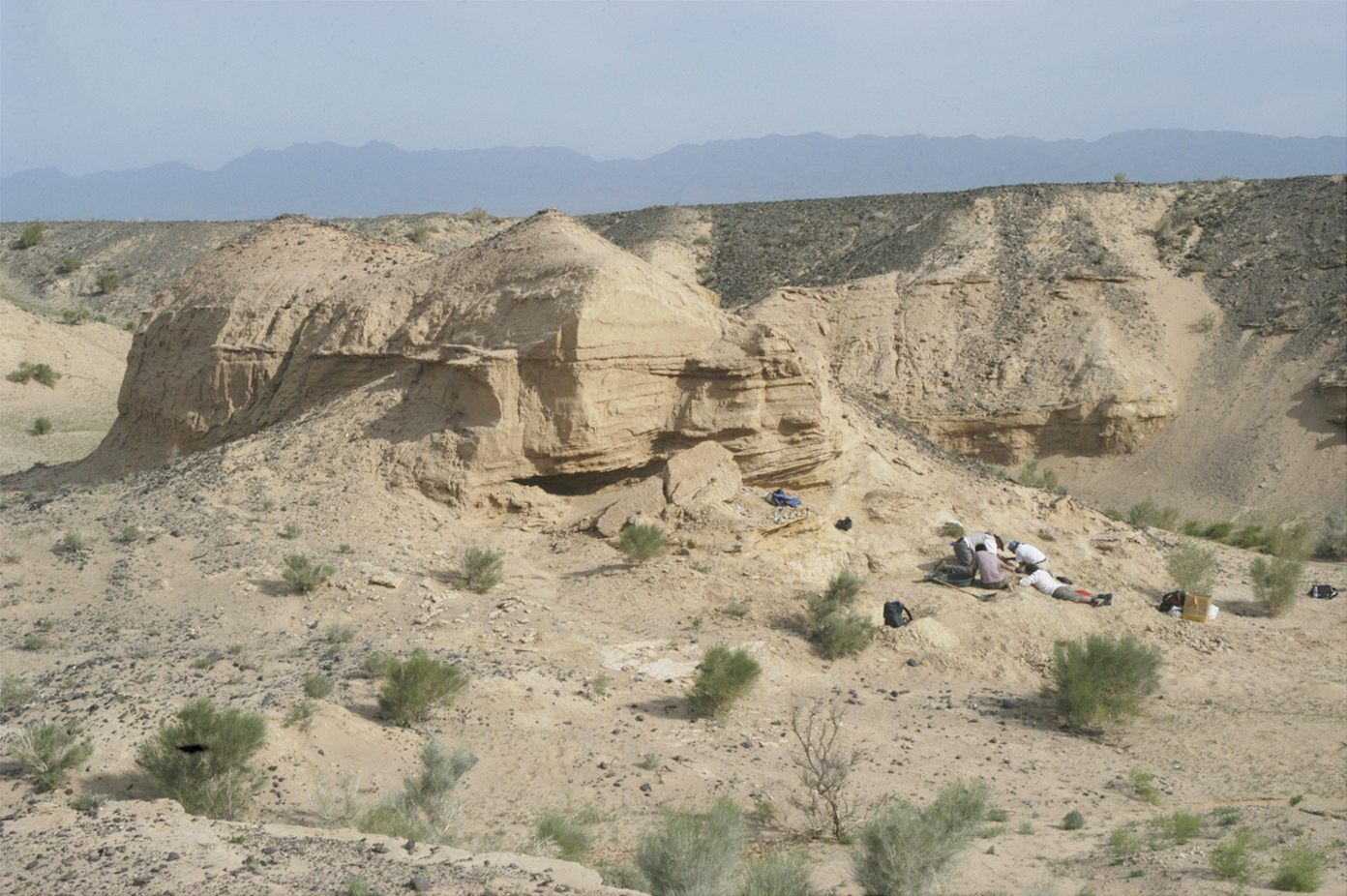 Image of field locality of Avimimus bonebed, showing regional sedimentological structures. Note people bottom right for scale.